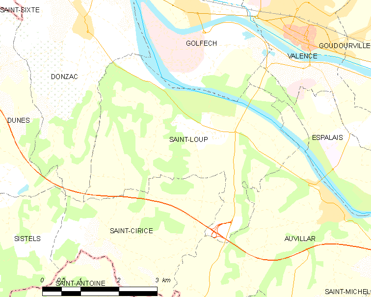 Map of French municipality Saint-Loup